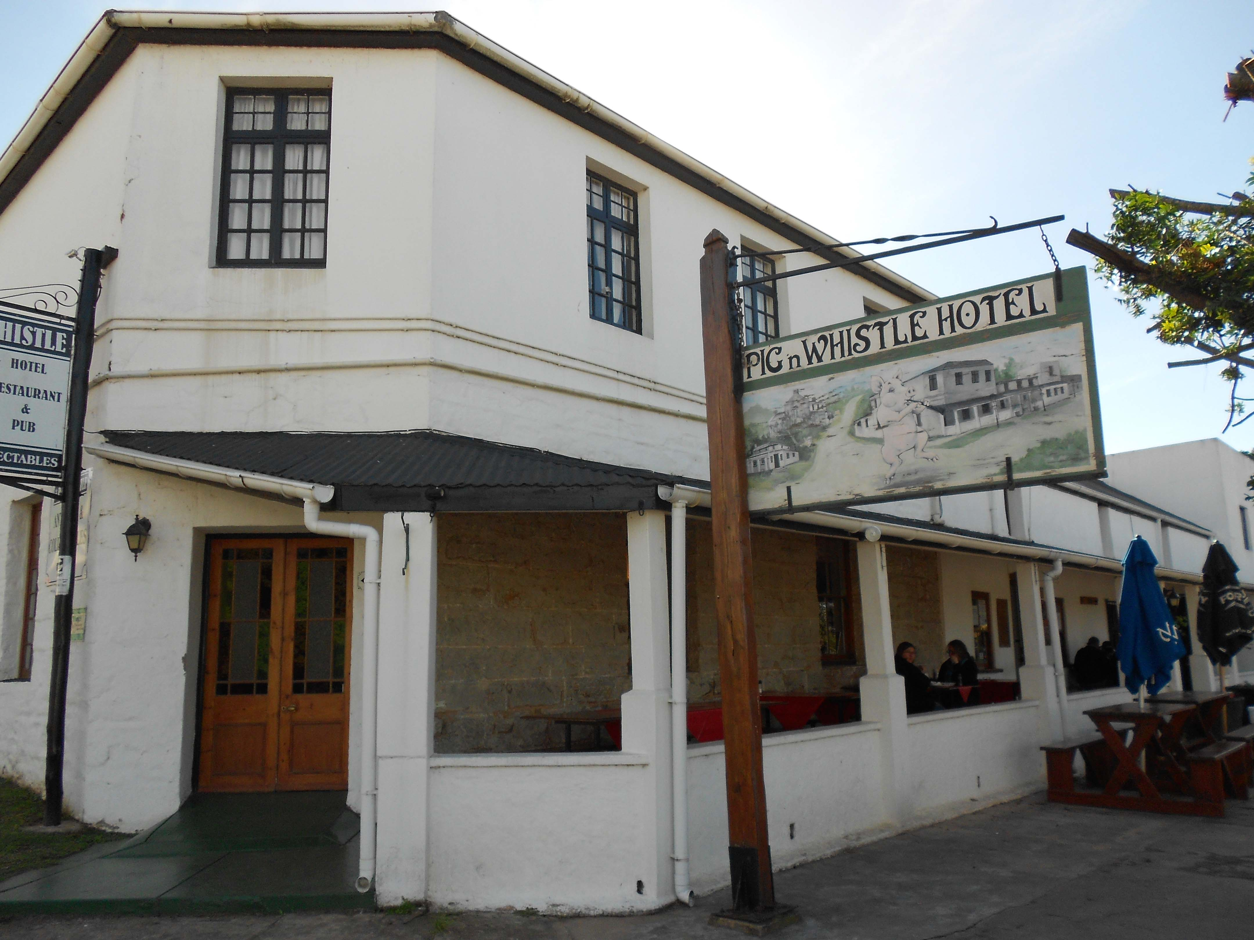 Pig and Whistle Hotel, Kowie Road, Bathurst This media shows a South African Protected Site with SAHRA file reference 9/2/009/0010.